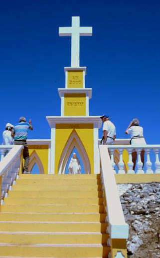 MEMORIAL BUILT ON BONAIRE’S HIGHEST HILL ; NUMEROUS SMALL LIZARDS POPULATE THE HILL